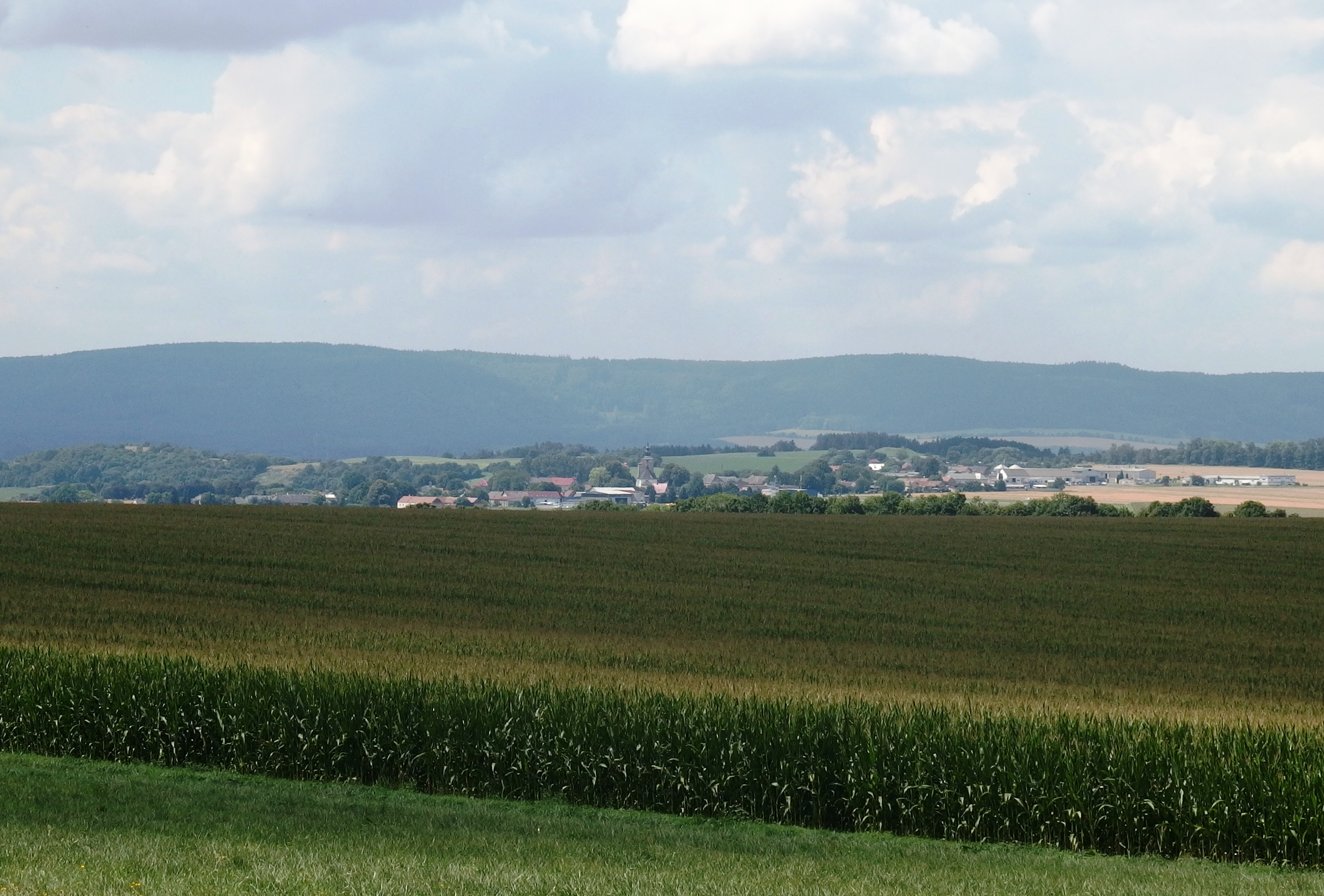 Staré Město, Svitavy District, Czech Republic.